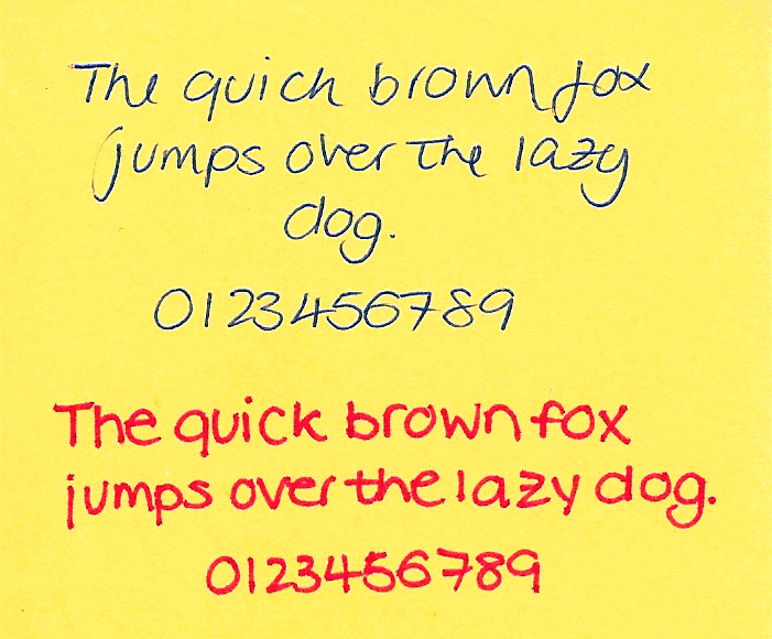 Actual handwriting, Anglo-Saxon type with little linkages, by the same writer in two different styles and writing instruments. ("My own handwriting, two different styles. First with biro, cursive and joined. Second with felt-tip, printed.")